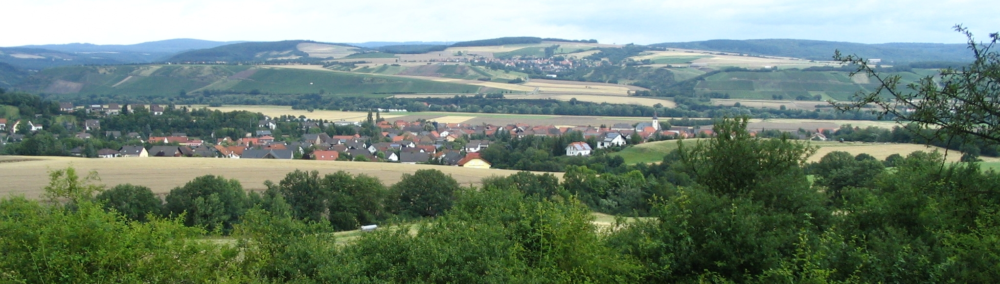 villages Meddersheim and Nußbaum (back) near the Nahe river, Germany